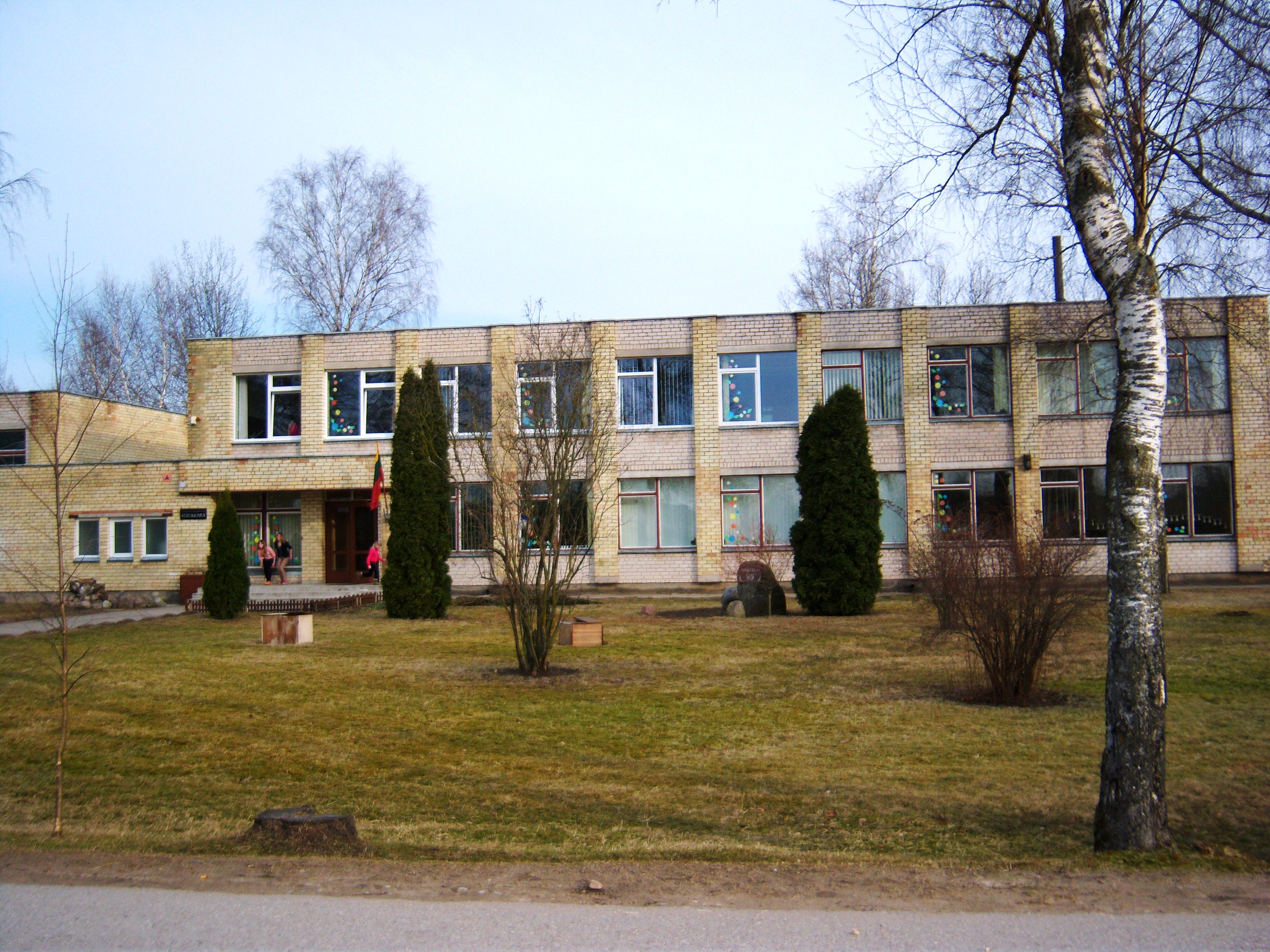 Juodaičiai principal school, Jurbarkas district, Lithuania